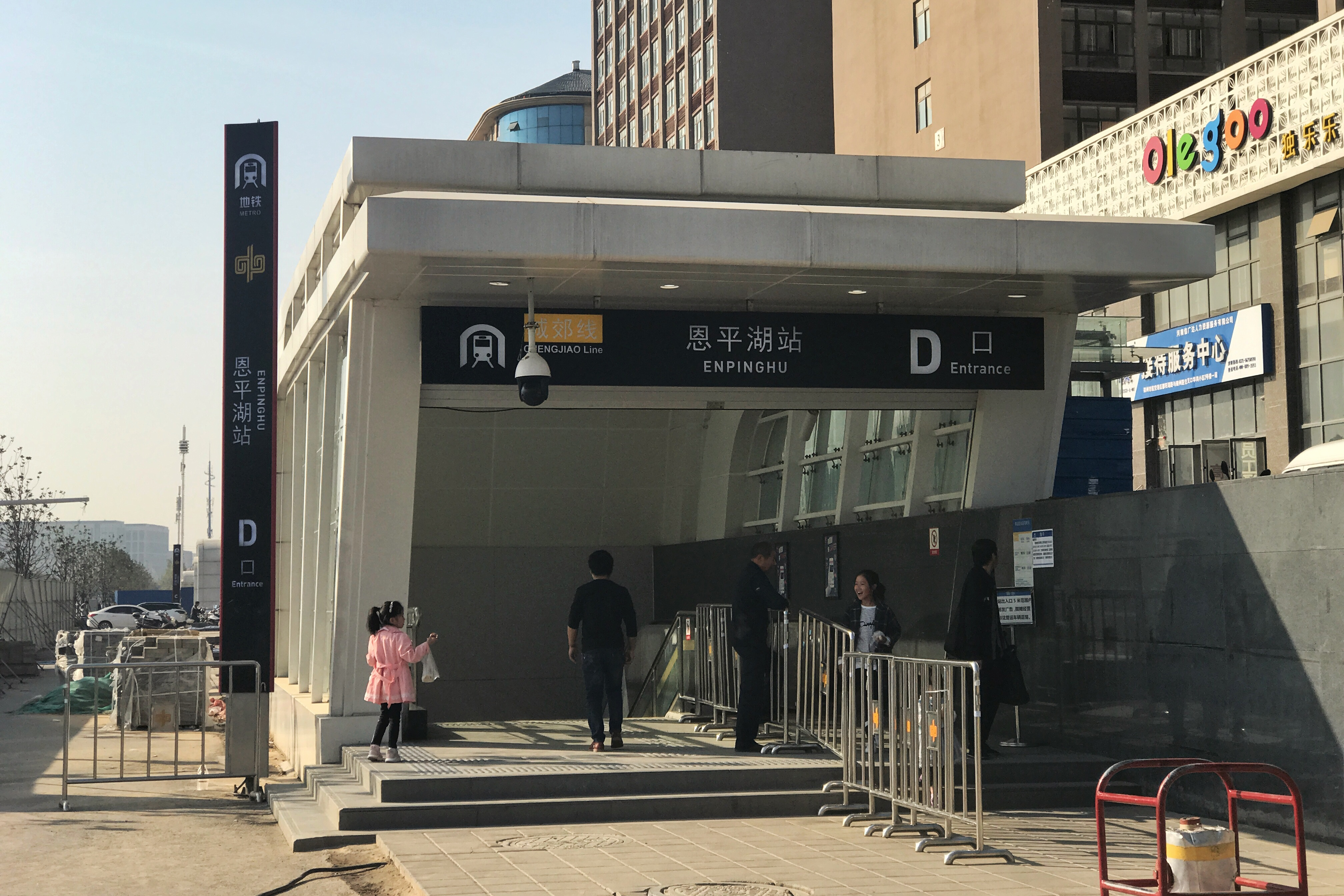 Entrance D of Enpinghu station